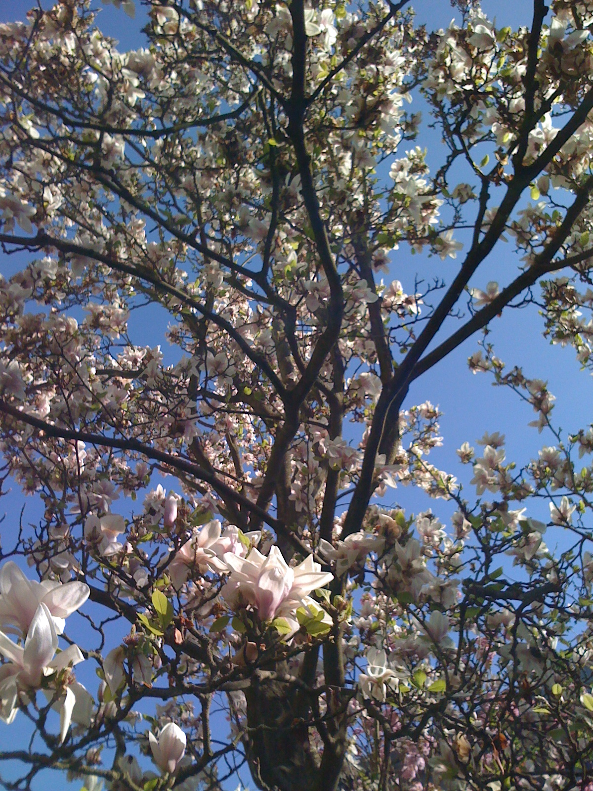 Magnolia tree